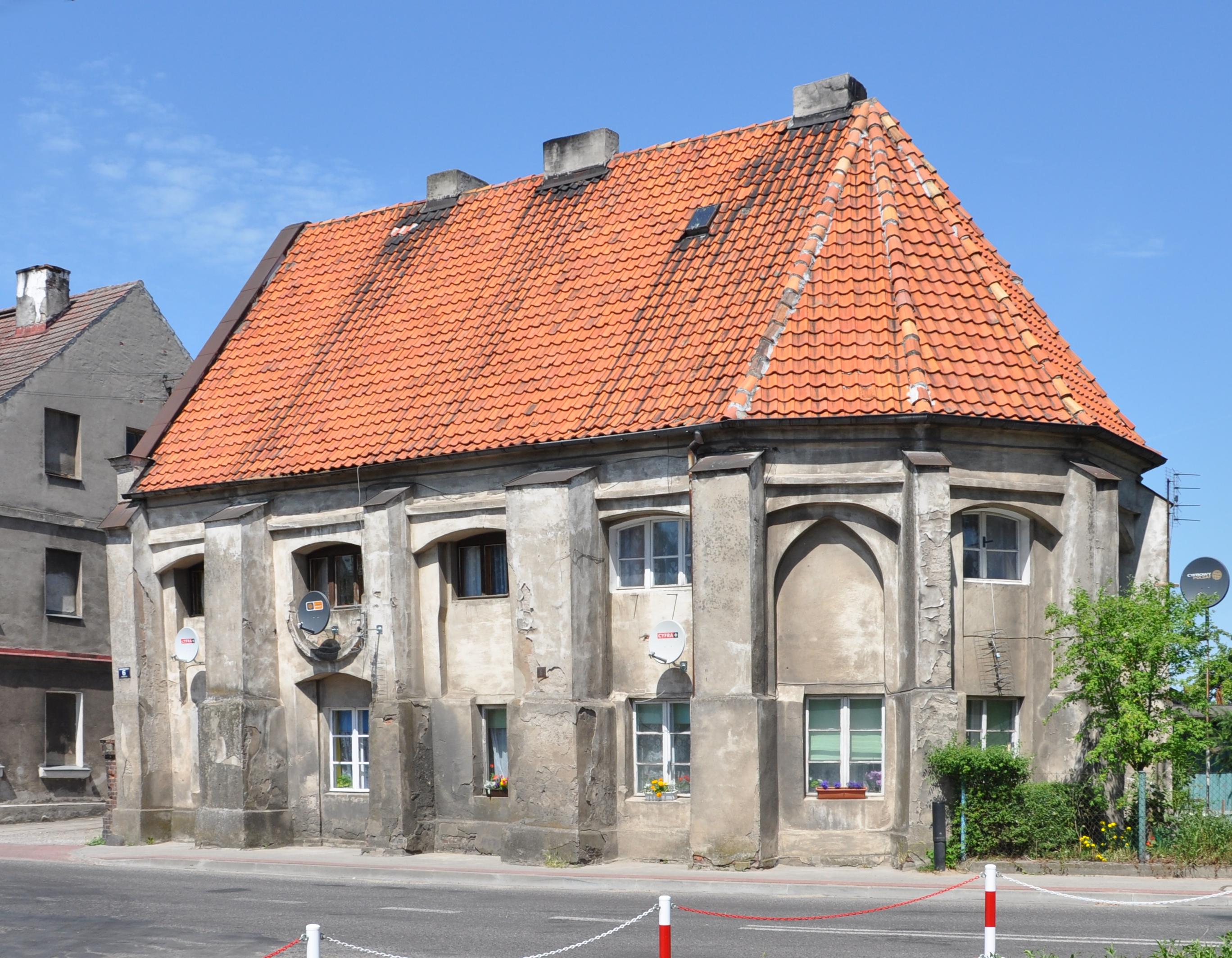 St. George's Chapel in Trzebiatów